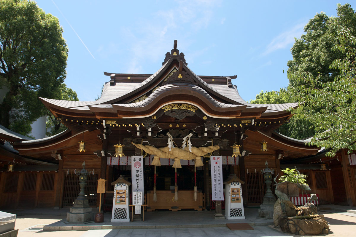 Kushida shrine in Hakata, Fukuoka city, Japan.